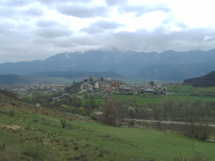 View over the Cerdanya-valley in the eastern pyrenees